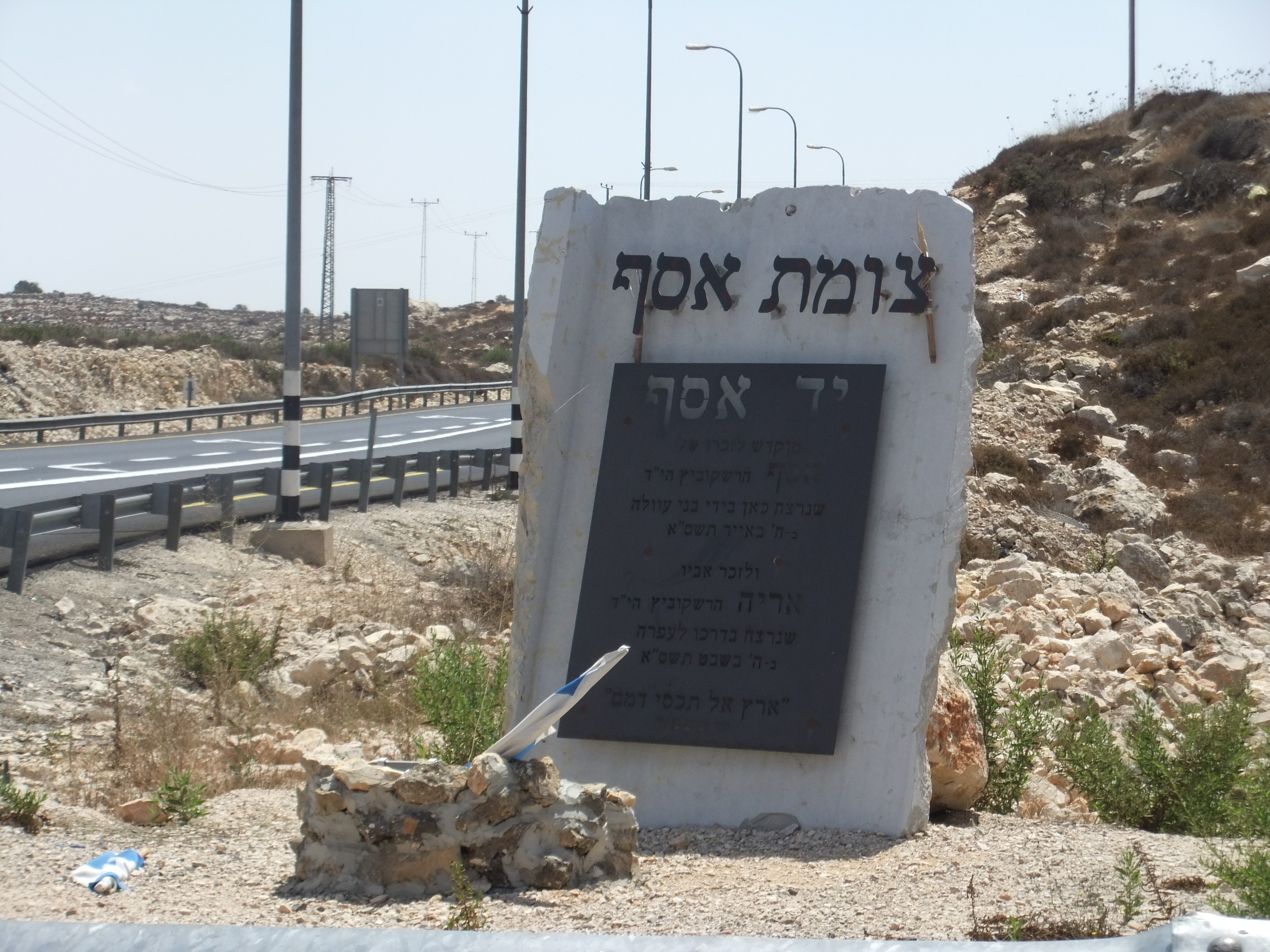 Memorial at Assaf junction between route 60 and the road to Beit El.